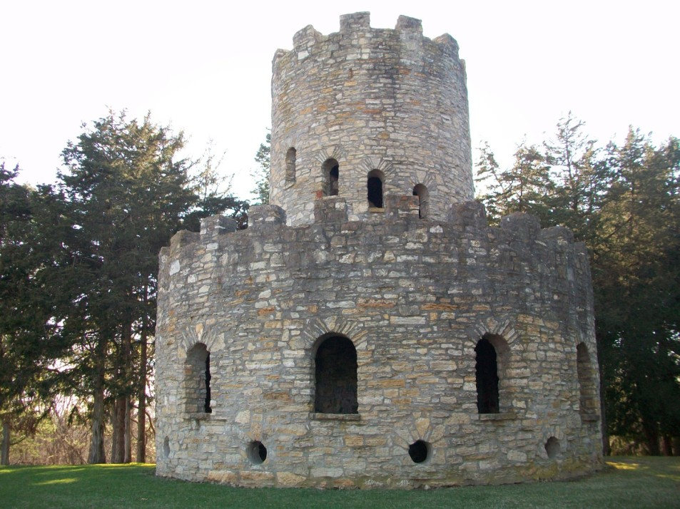 Castle at Eagle Point Park